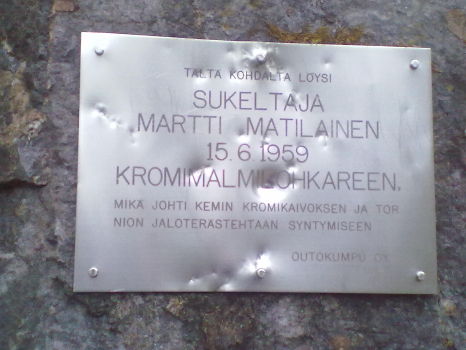 Plaque in the Memorystone that was erected in the location where the first chromite malm sample was found on 15th June, 1959. The Kemi mine was openED six years later. Text in english: "From this location found diver Martti Matilainen 15th June, 1959 a chromite malm stone, that lead to opening of Kemi Mine and Tornio Steel factory."